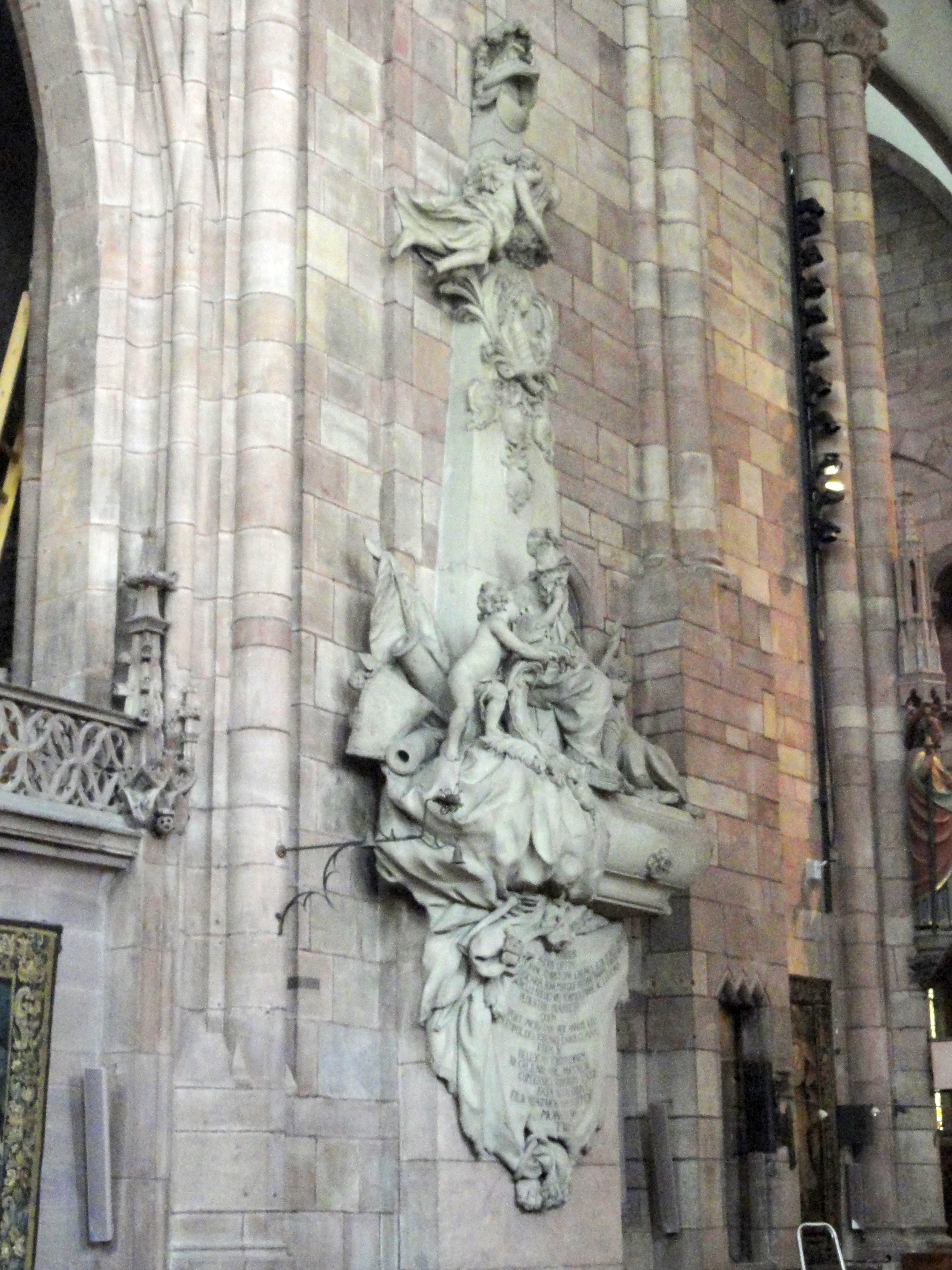 Epitaphs in Freiburg Minster, Freiburg im Breisgau, Baden-Württemberg, Germany.